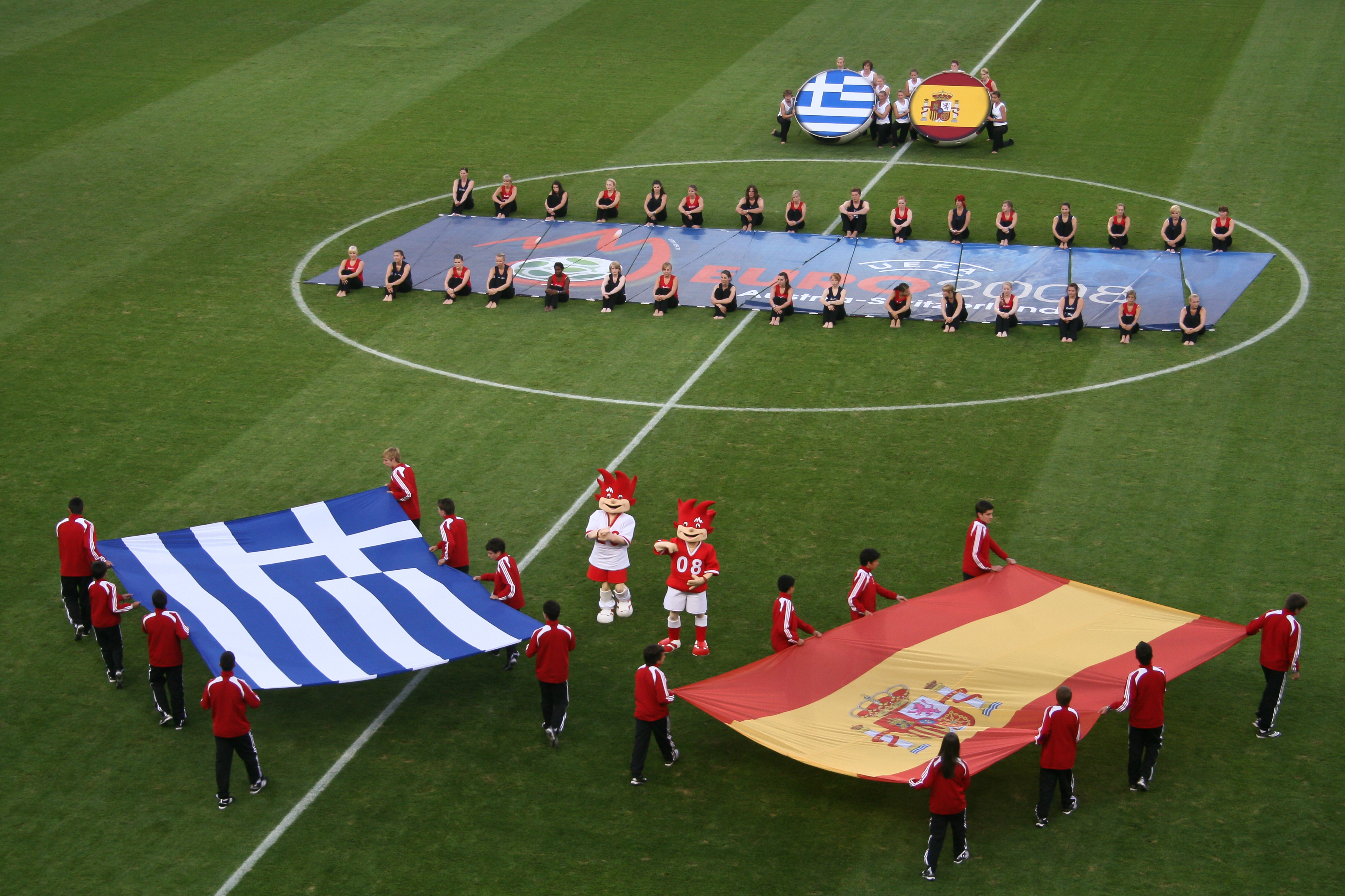 EM-Stadion Wals-Siezenheim in Salzburg during UEFA Euro 2008